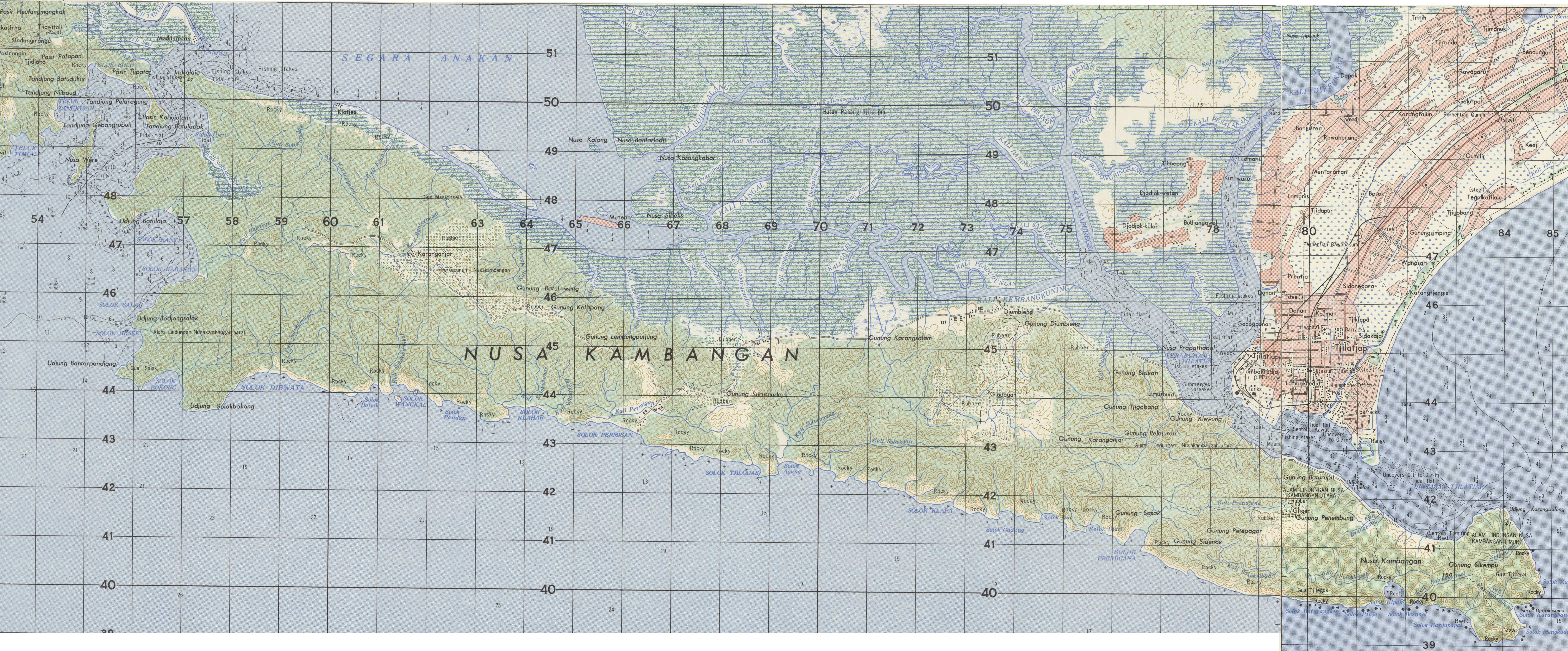 1:50,000 map of Nusa Kambangan island, Indonesia